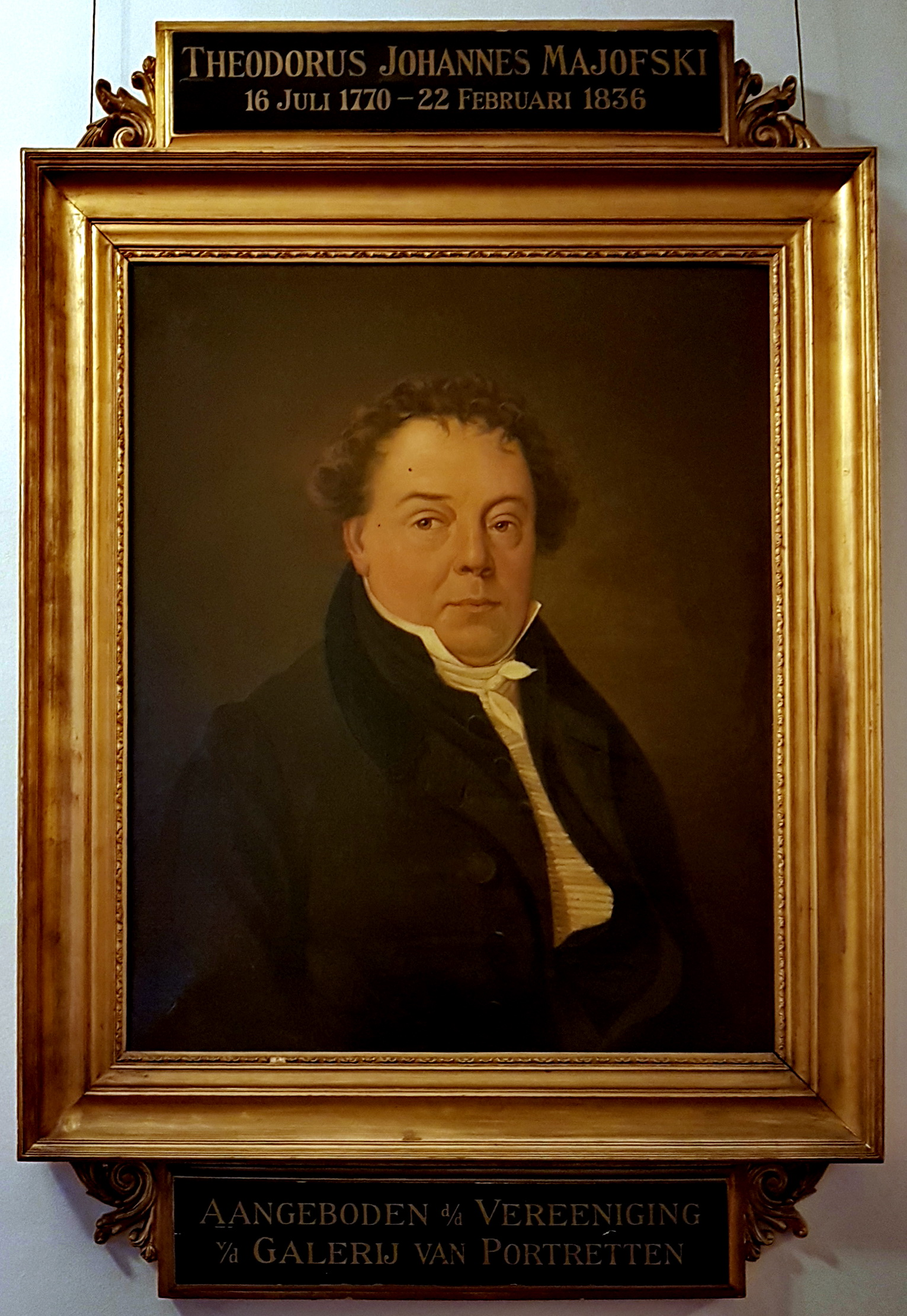 Portrait of Dutch actor Theo Majofski (1770-1836) by Gerardus van Hove in a corridor of Stadsschouwburg, Amsterdam's municipal theatre on Leidseplein, Amsterdam, the Netherlands.